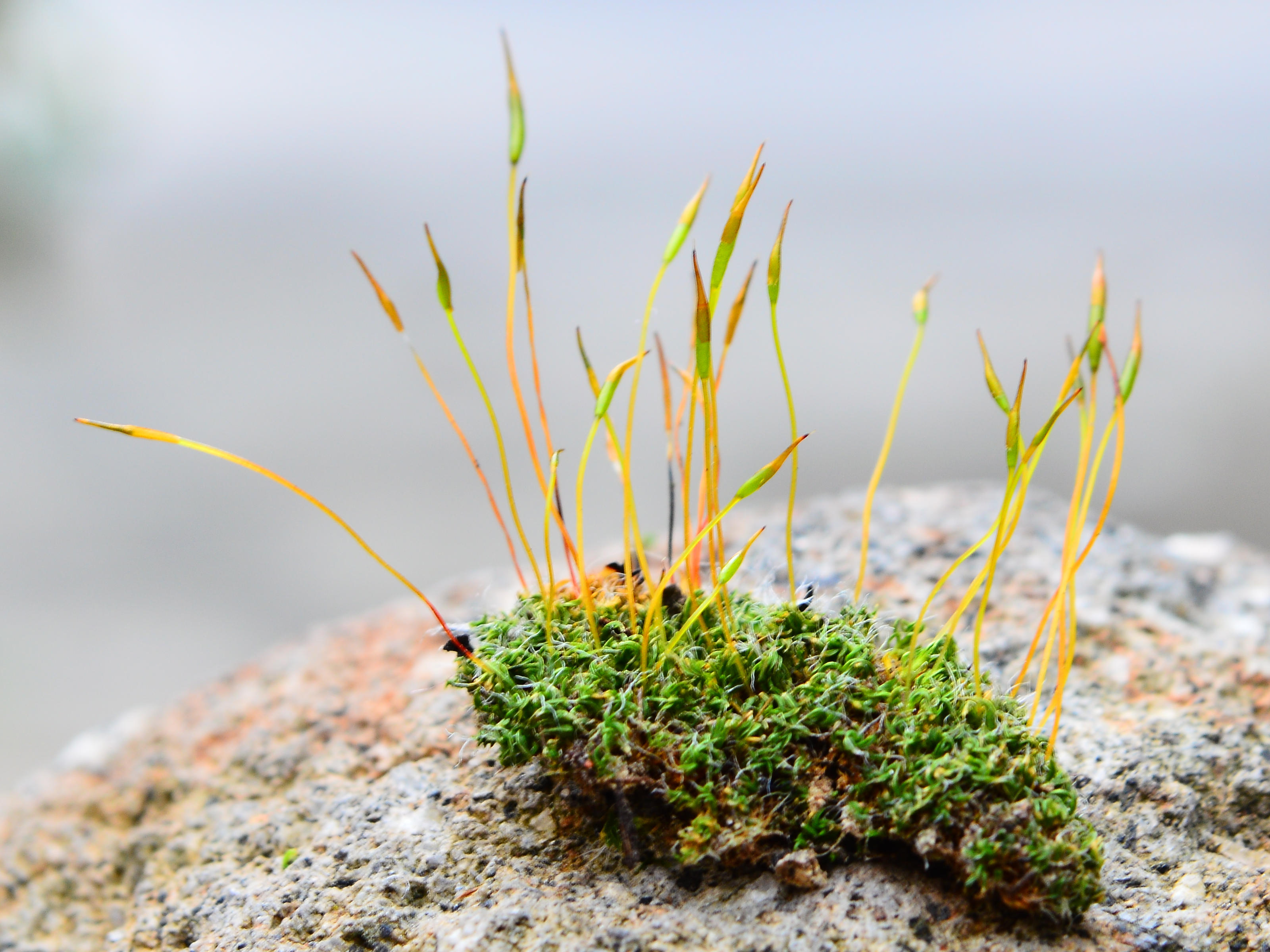 A bit of moss, showing both the gametophyte and sporophyte forms.